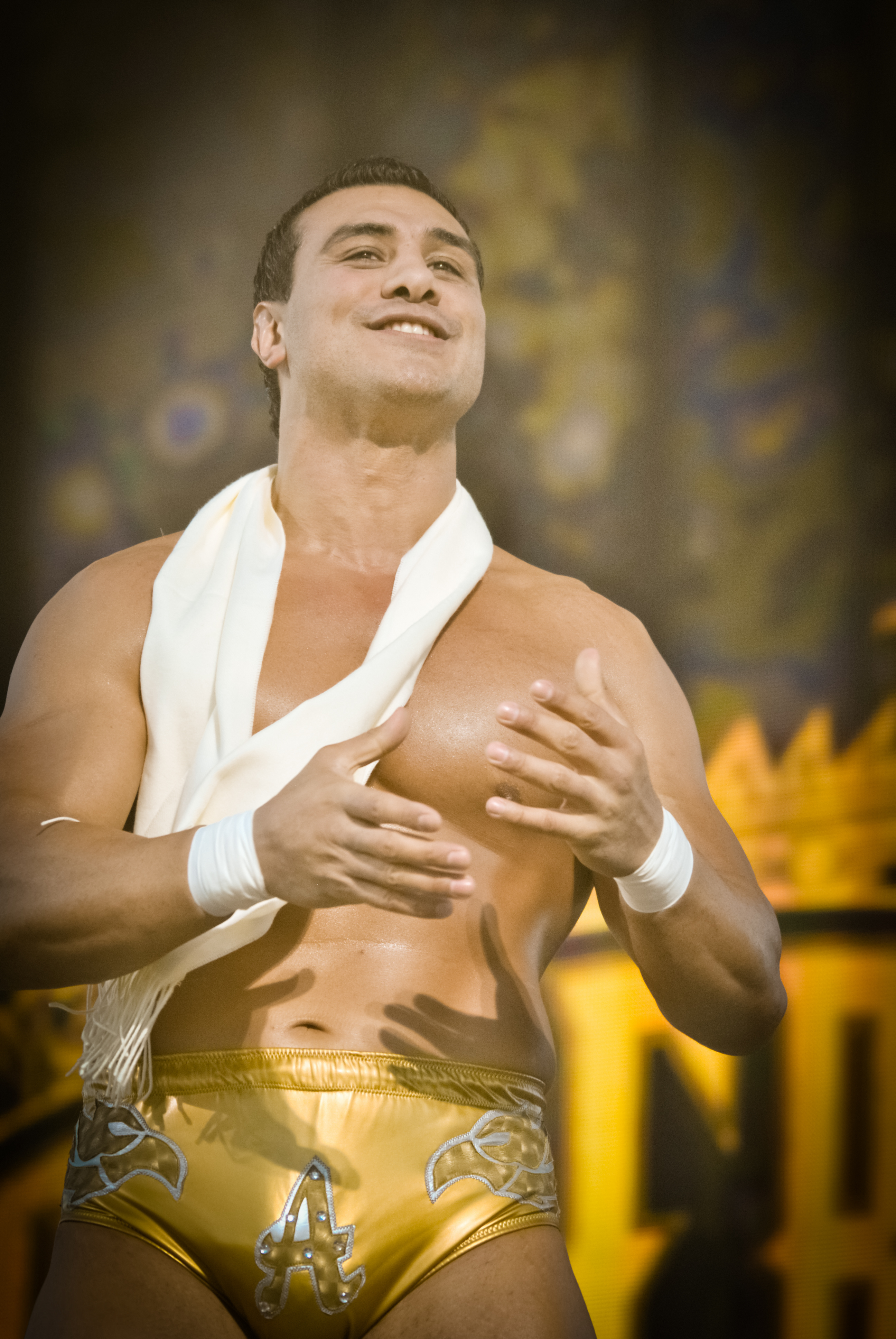 Alberto Del Rio at WWE's 2010 Tribute to the Troops show in Fort Hood, Texas on December 11, 2010.